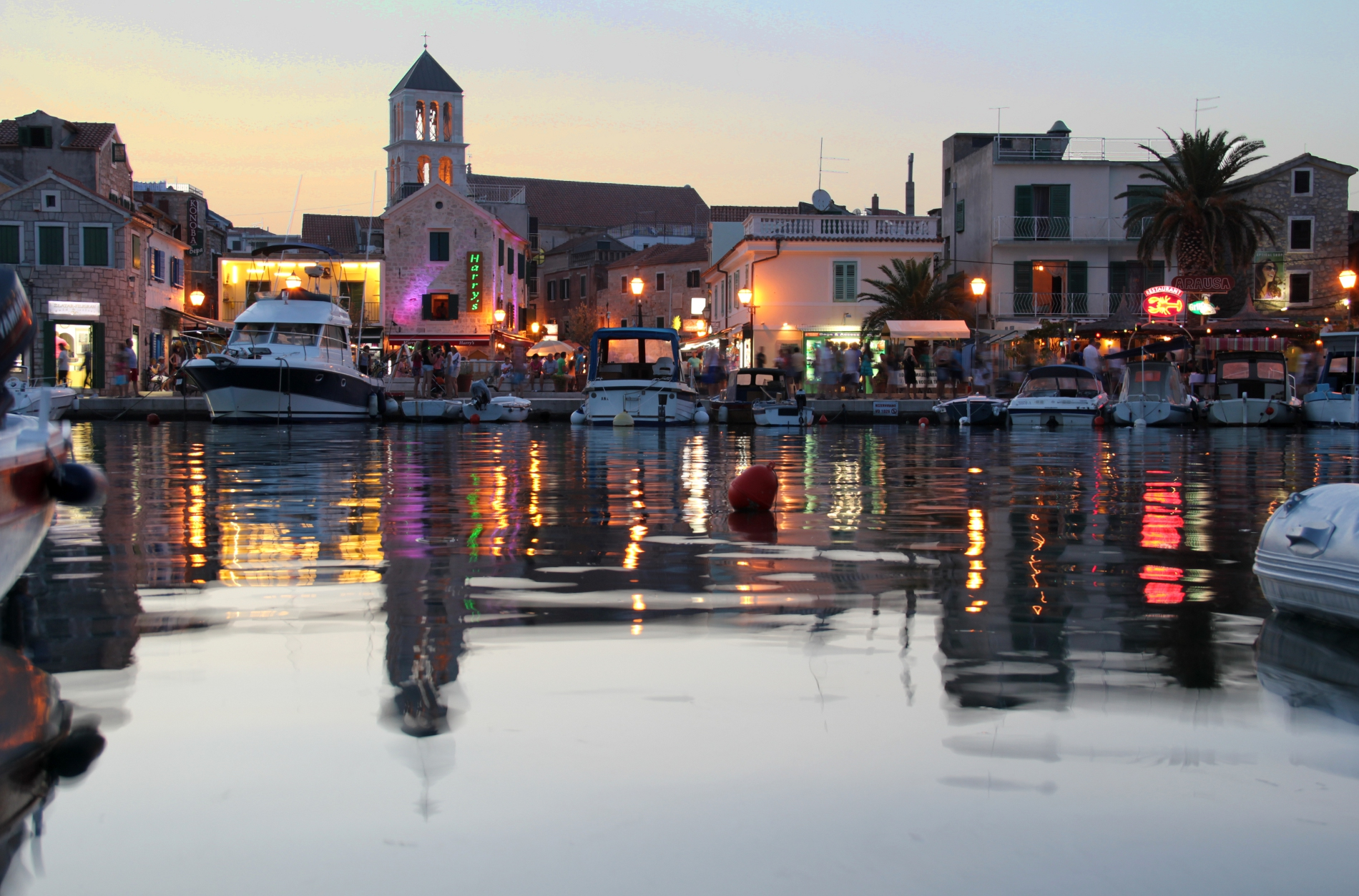 Vodice view from port